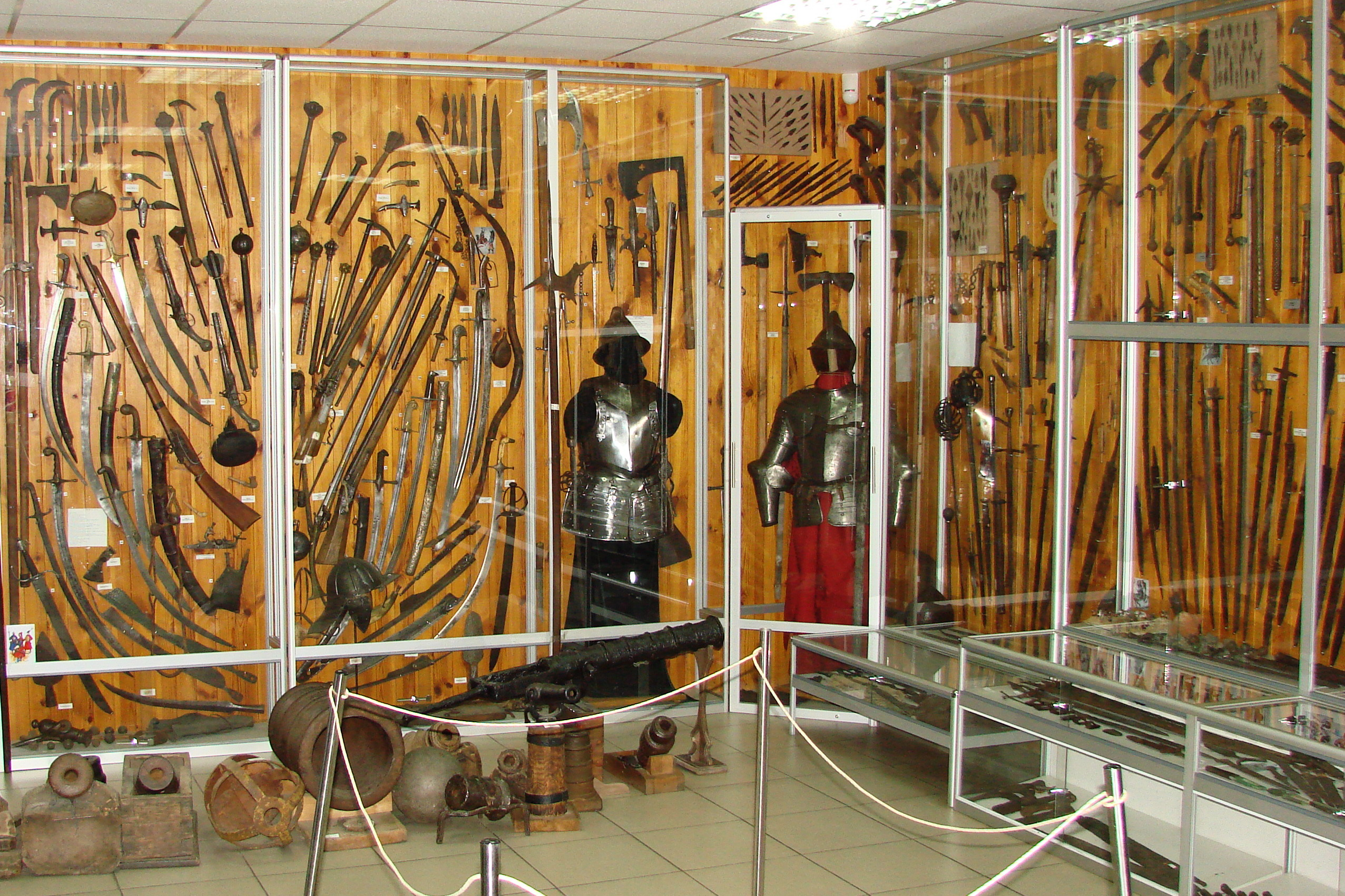 Ukraine, Zaporizhia, Weapon history museum